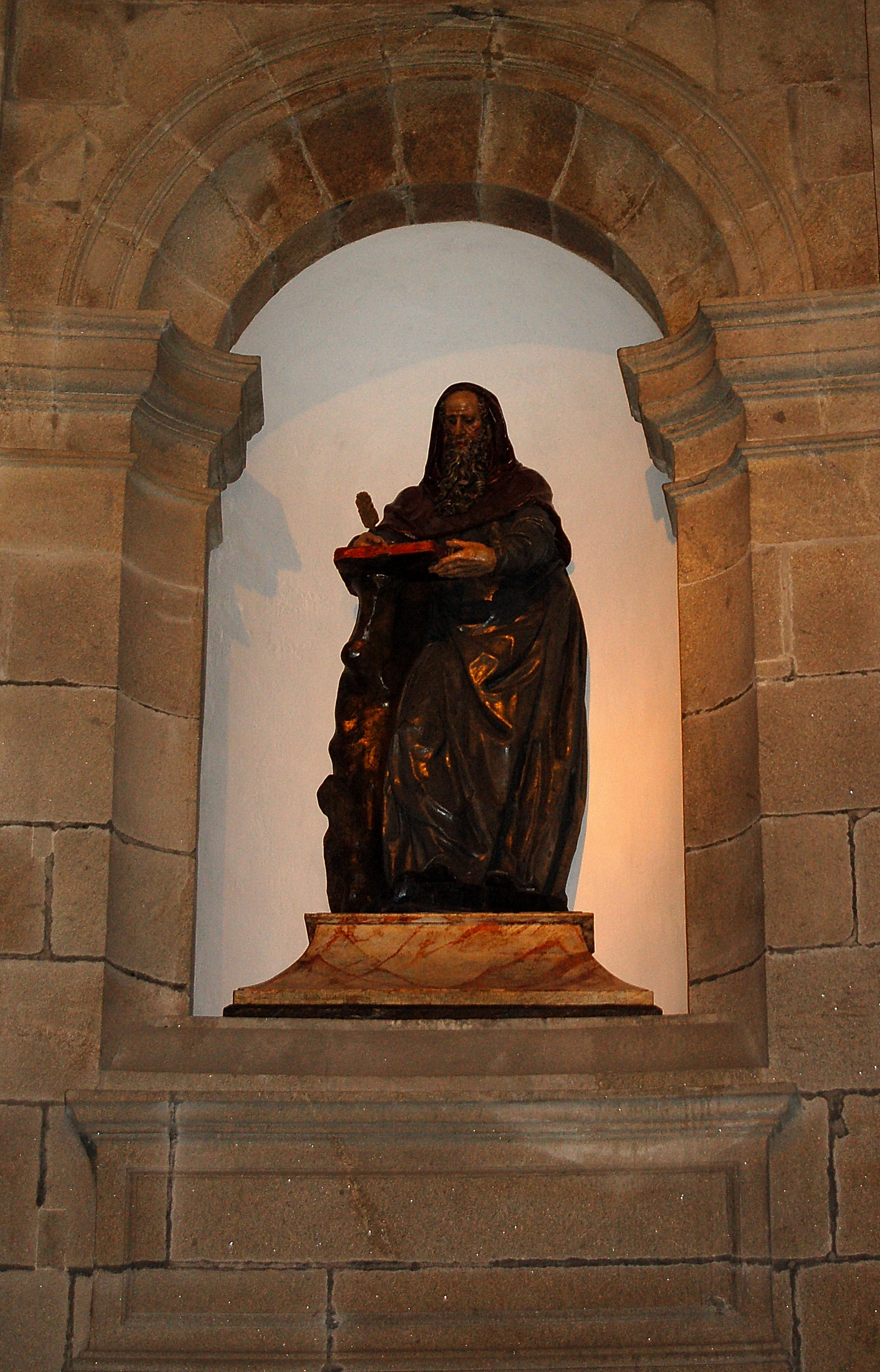 San Xerome de Estridón de Xoán Davila na capela da comuñón da Catedral de Santiago de Compostela